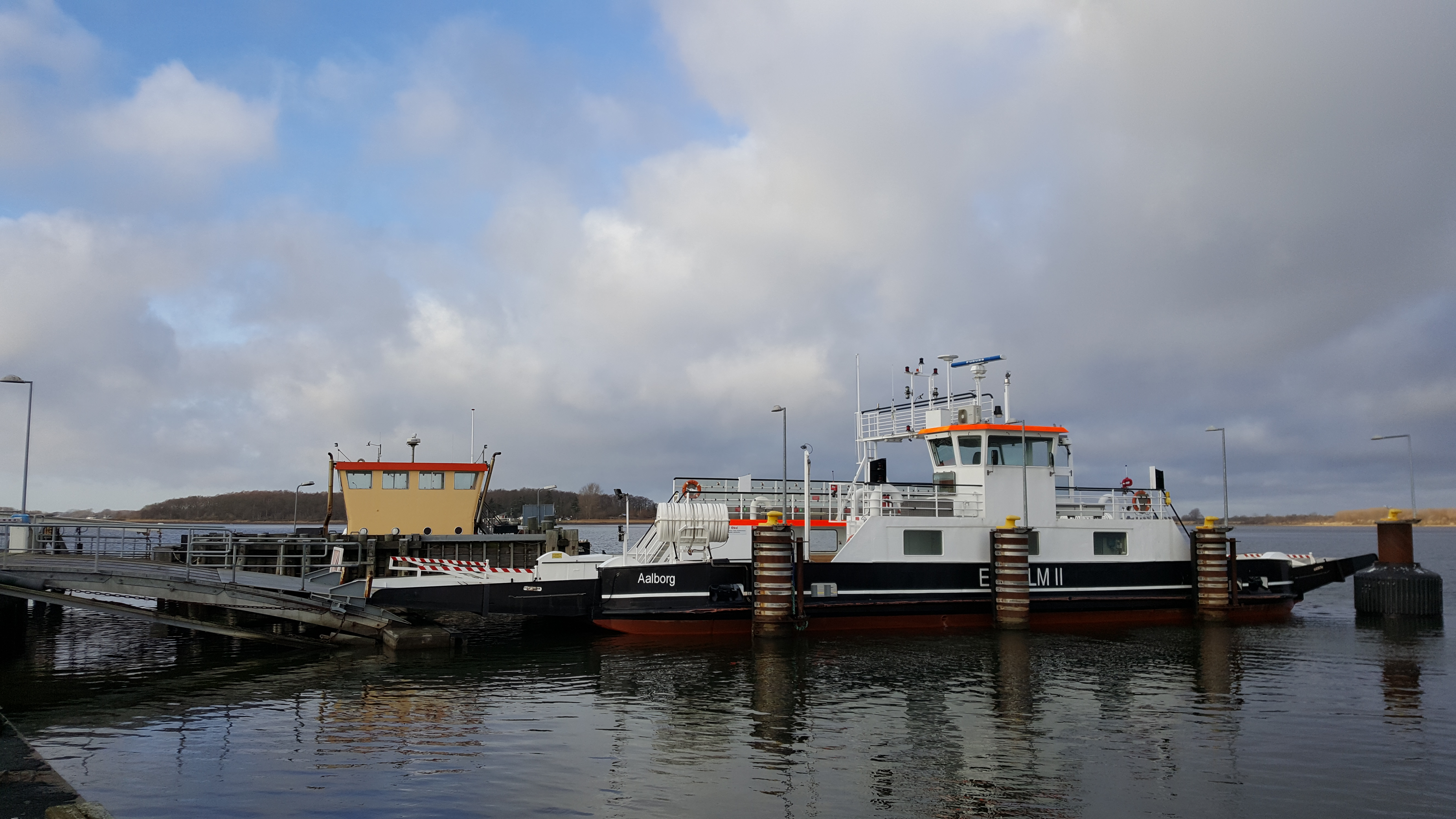 The ferries between Aalborg and the island of Egholm in Limfjorden